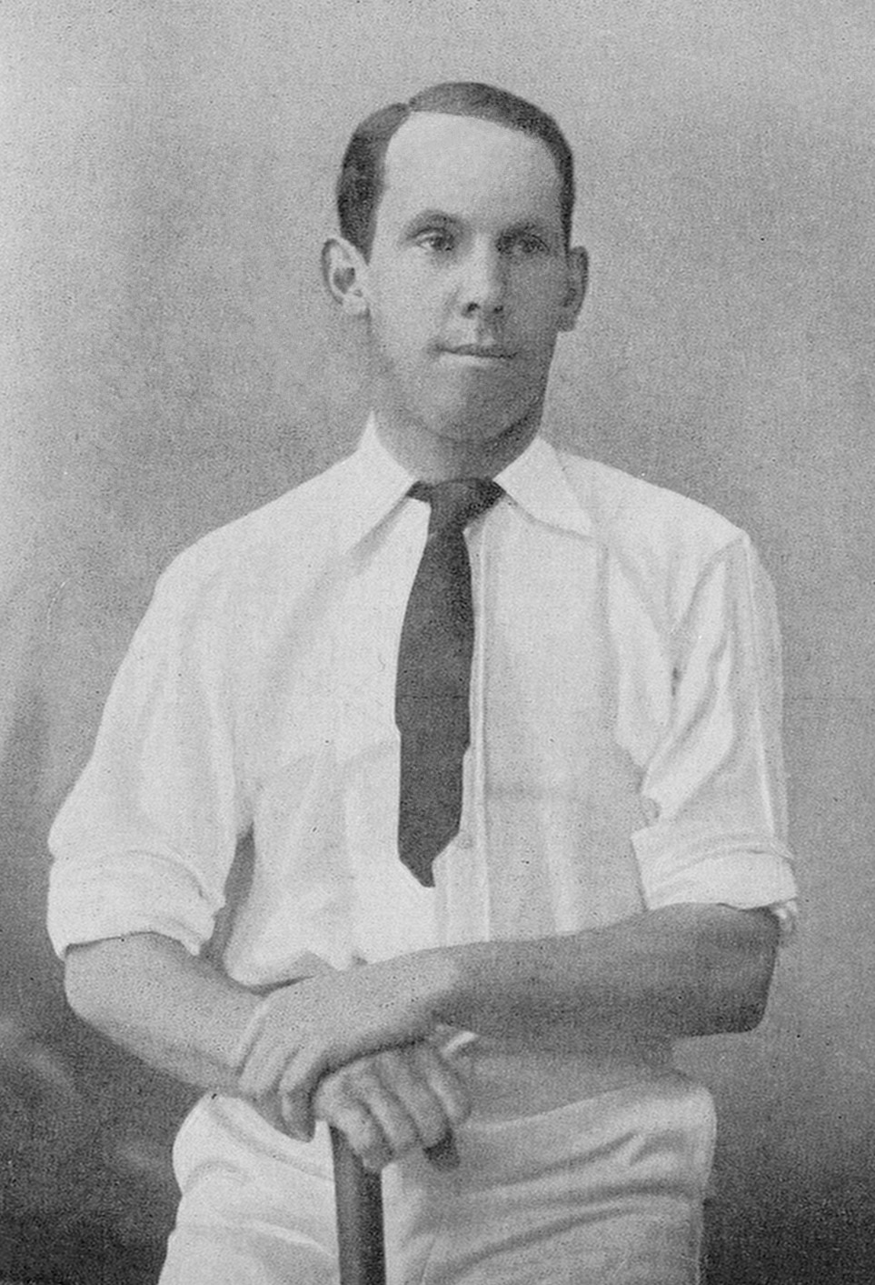 "Dr R. Bencraft."